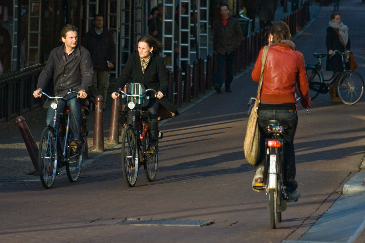 Bicyclists of Amsterdam 8 (Set)